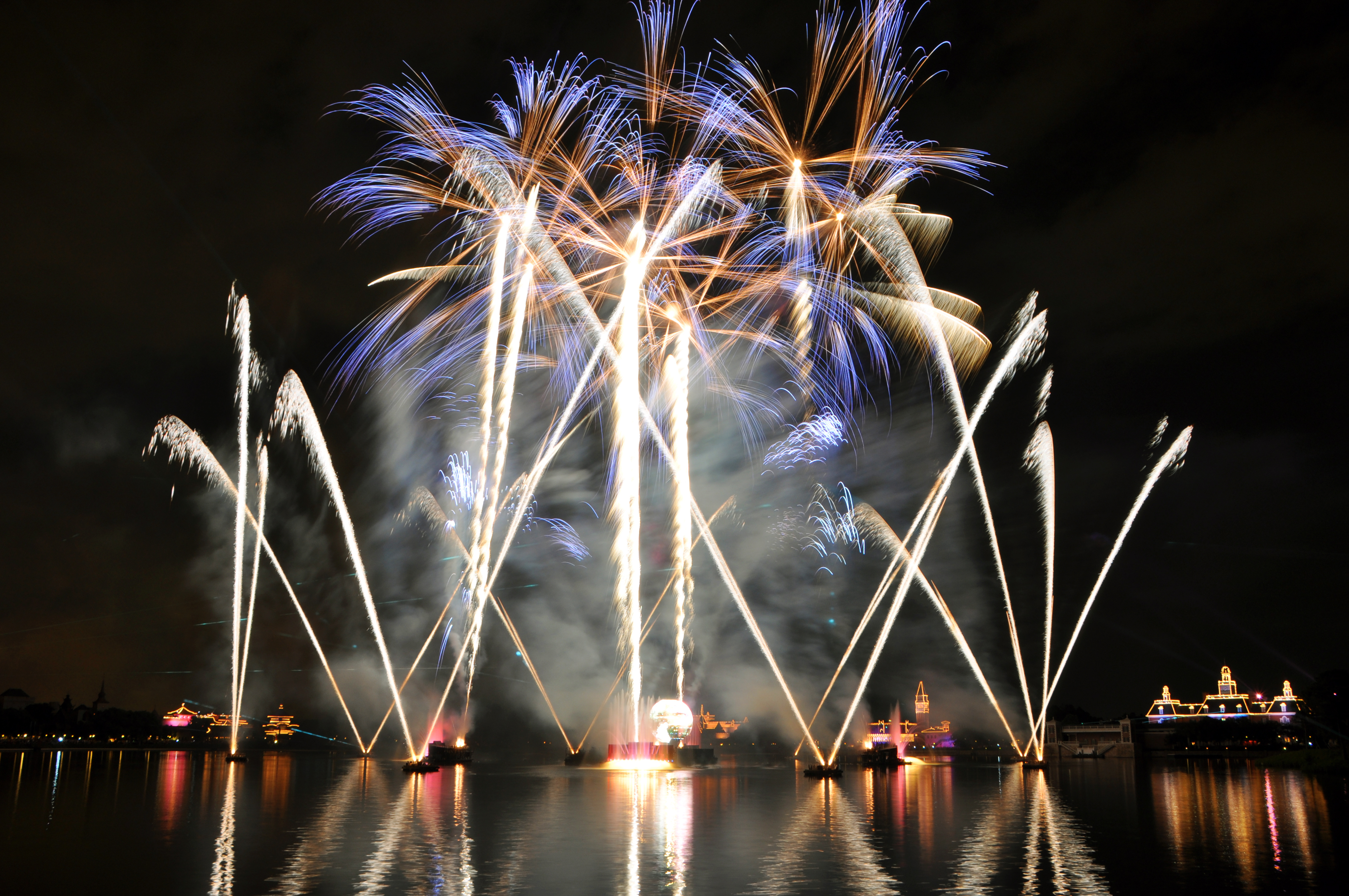 Epcot Illuminations at Walt Disney World Orlando in 2010